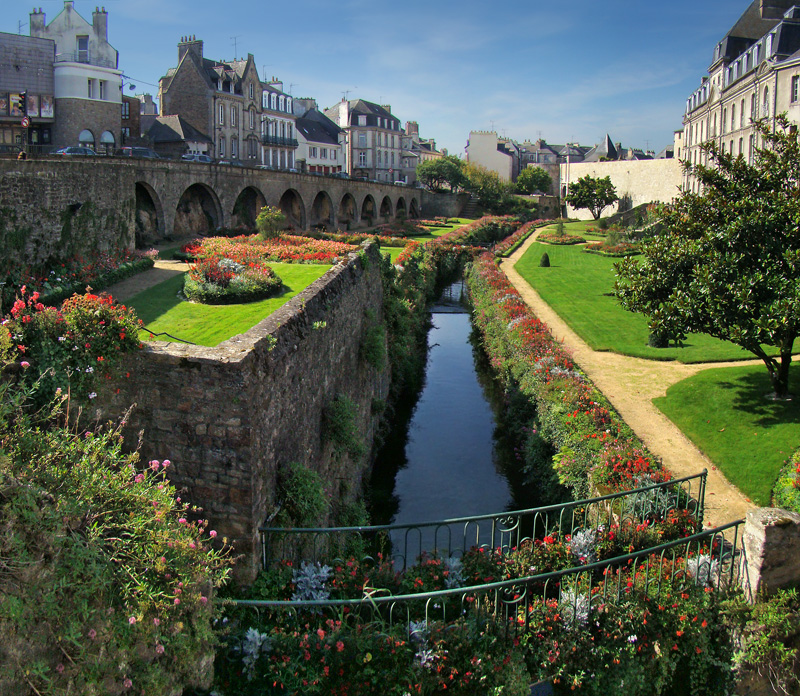 Vannes, Morbihan, Bretagne, France. Garden of the Château de l'Hermine.